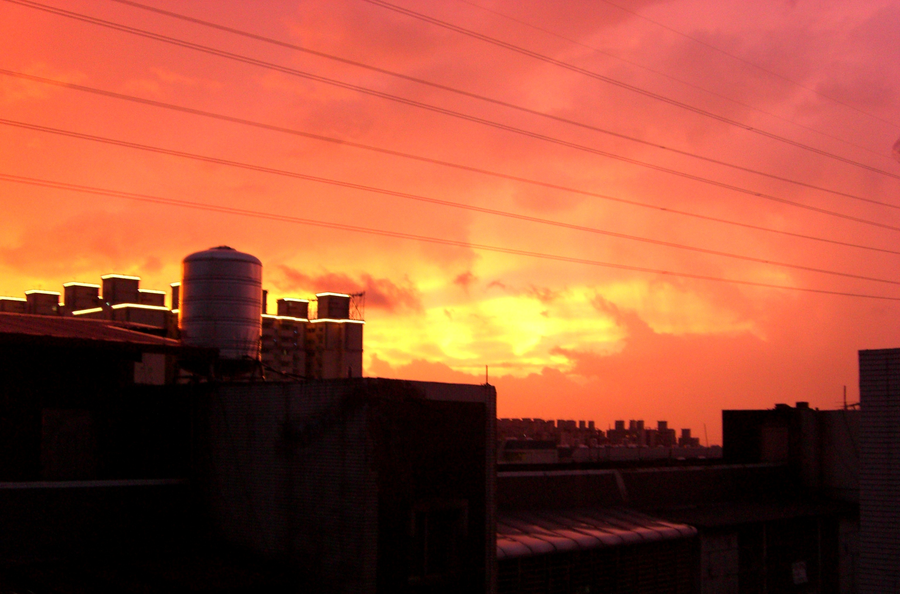 Before typhoon Sepat coming in Taoyuan,Taiwan.